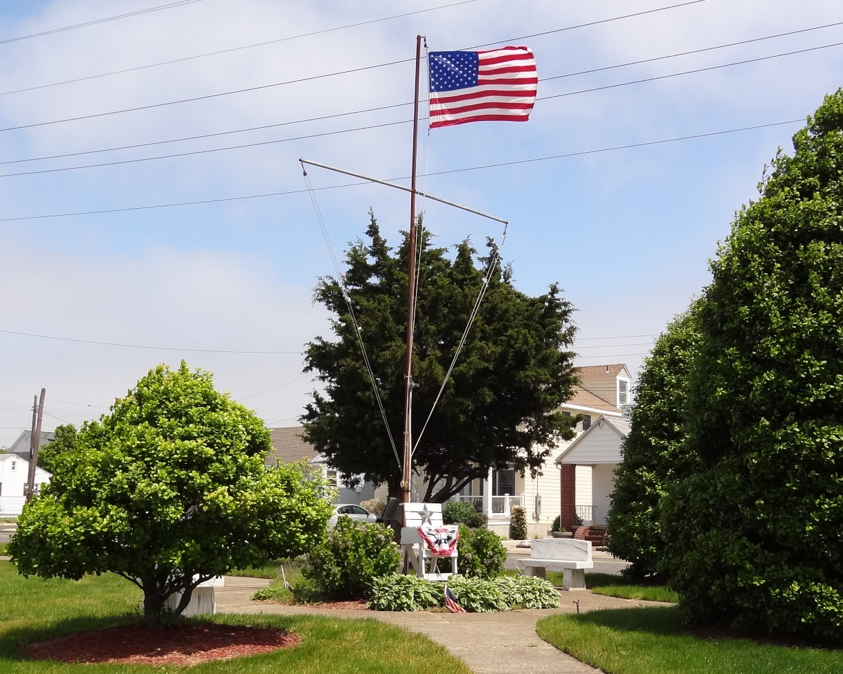 Park in memory of the Battle of Turtle Gut Inlet in Wildwood Crest, New Jersey.